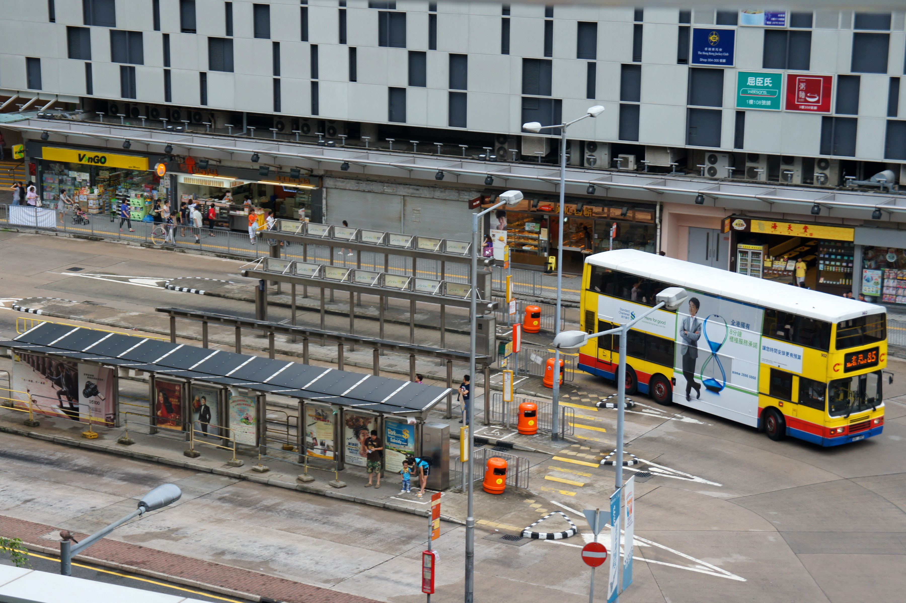 Siu Sai Wan Estate Bus Terminus at Siu Sai Wan.